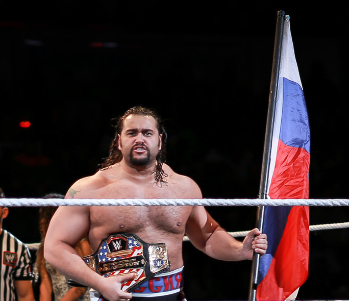 Rusev as the WWE United States Champion in February 2015. Cropped from original.